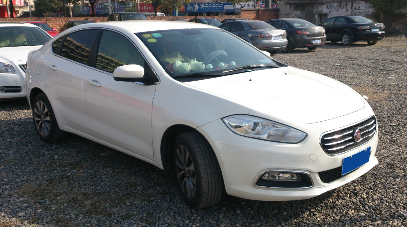 Fiat Viaggio photographed in Shanghai, China.